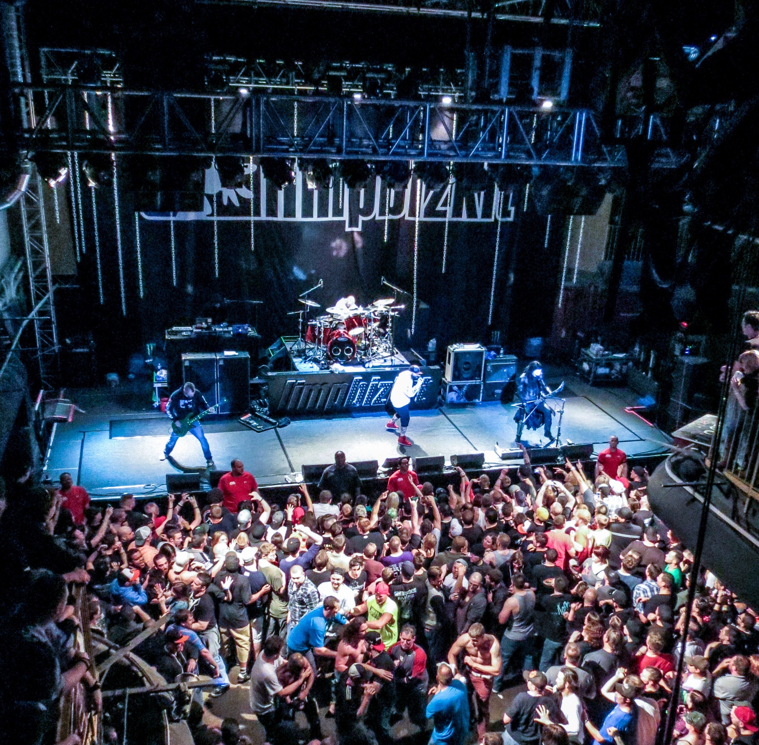 Limp Bizkit live at the Rams Head Live in Baltimore Maryland on May 3, 2013.